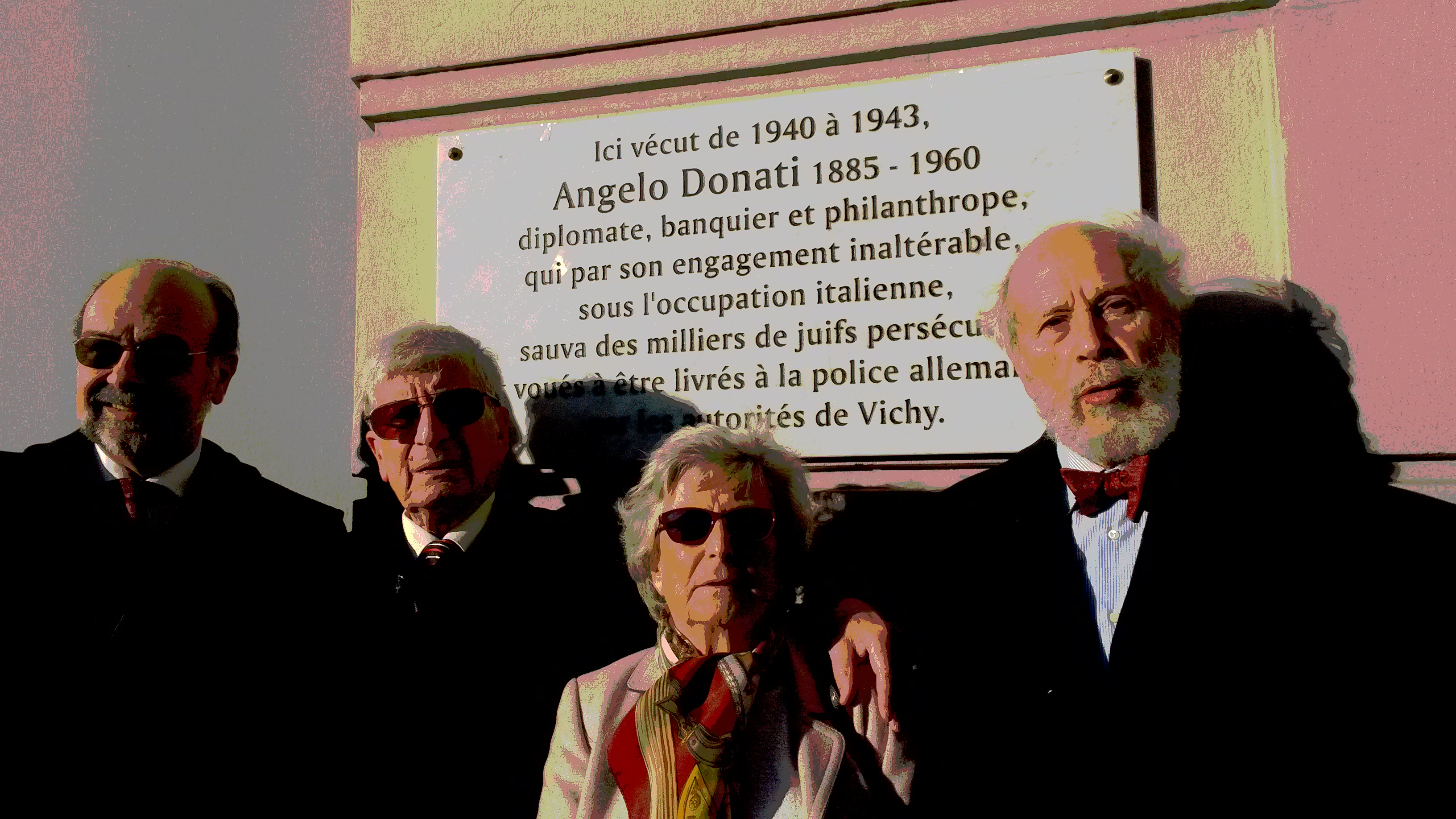 Inauguration of the plaque in remembrance of Angelo Donati in Nice with Marianne and Rolf Spier Donati, Giorgio Sacerdoti and Giorgio Mortara